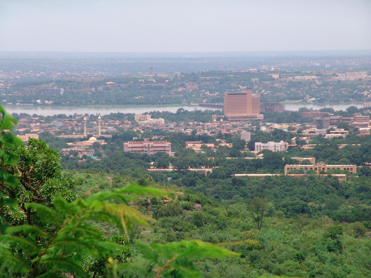 Bamako Mali: View of the city from the hills where presidential palace compound is located.